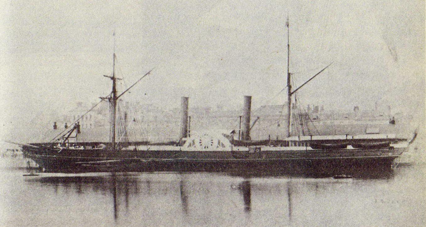 Paddle steamship Euxine photographed before 1868, possibly in Marseilles